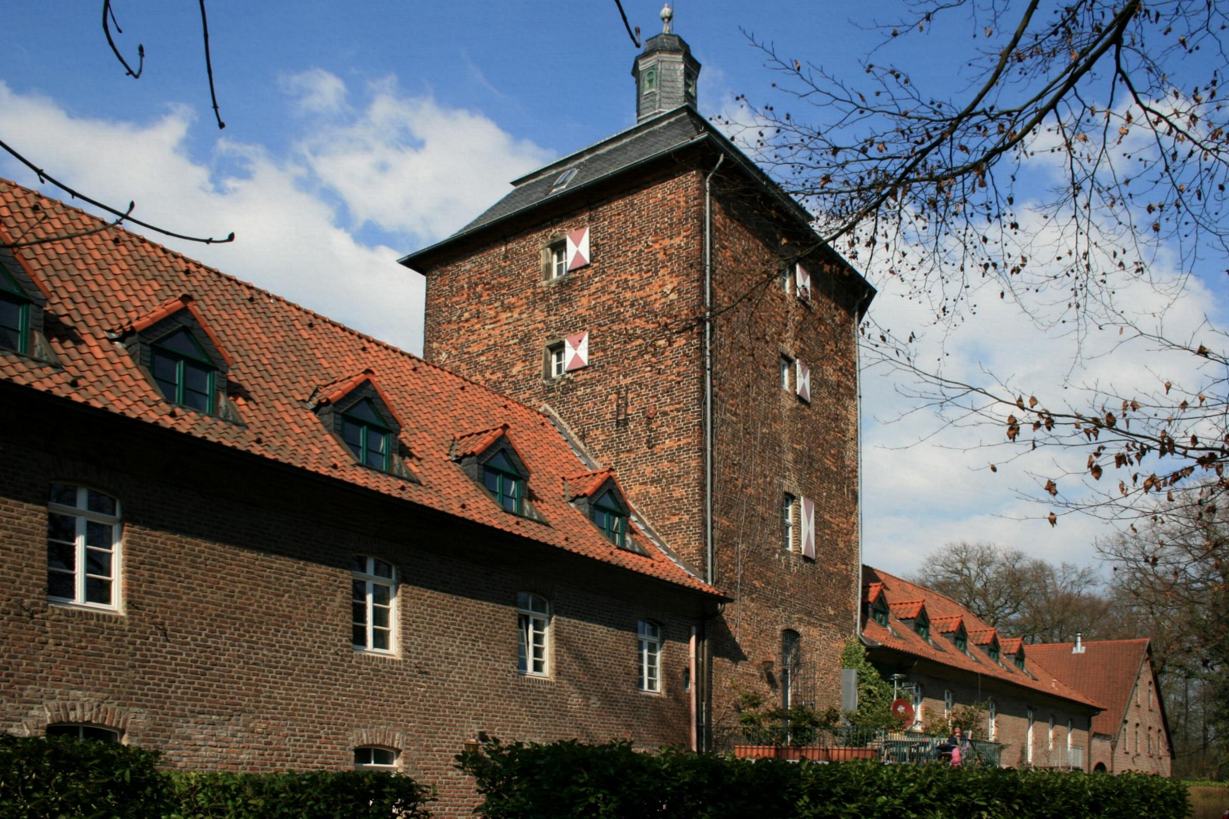 This is a photograph of an architectural monument. (2)